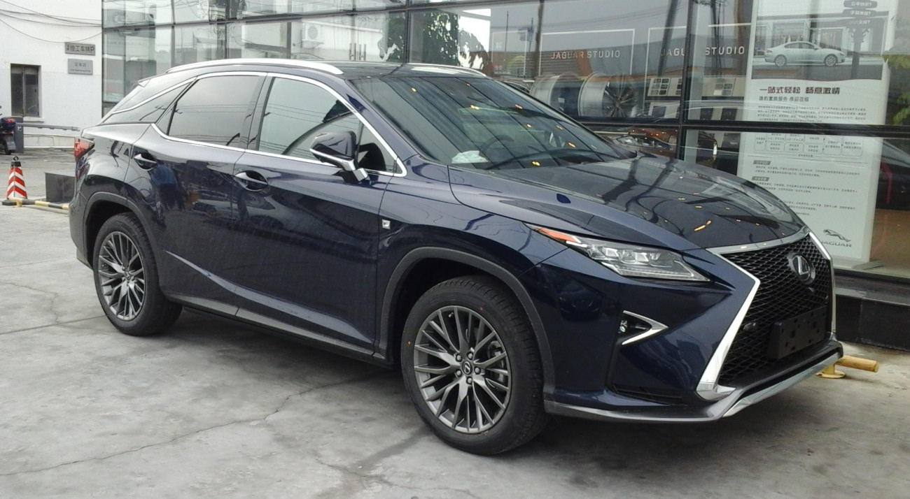 Lexus RX AL20 photographed in Shanghai, China.